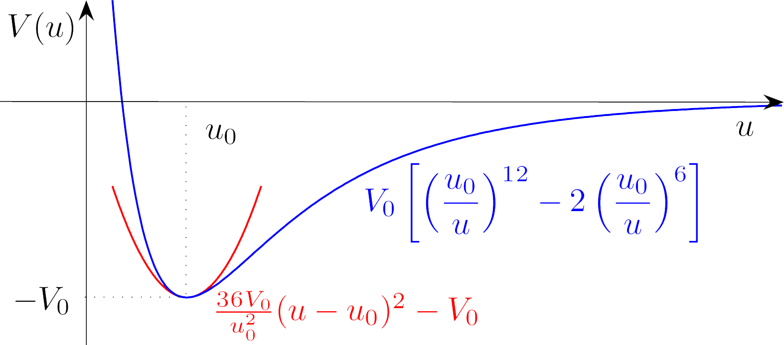 pababolic approximation of a Lenard-Jones-(12,6) potential